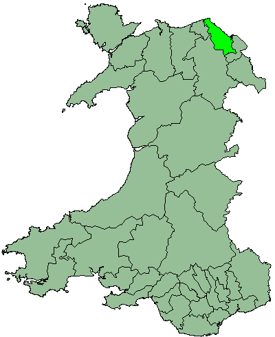 Locator map for Delyn (1974) within Wales.